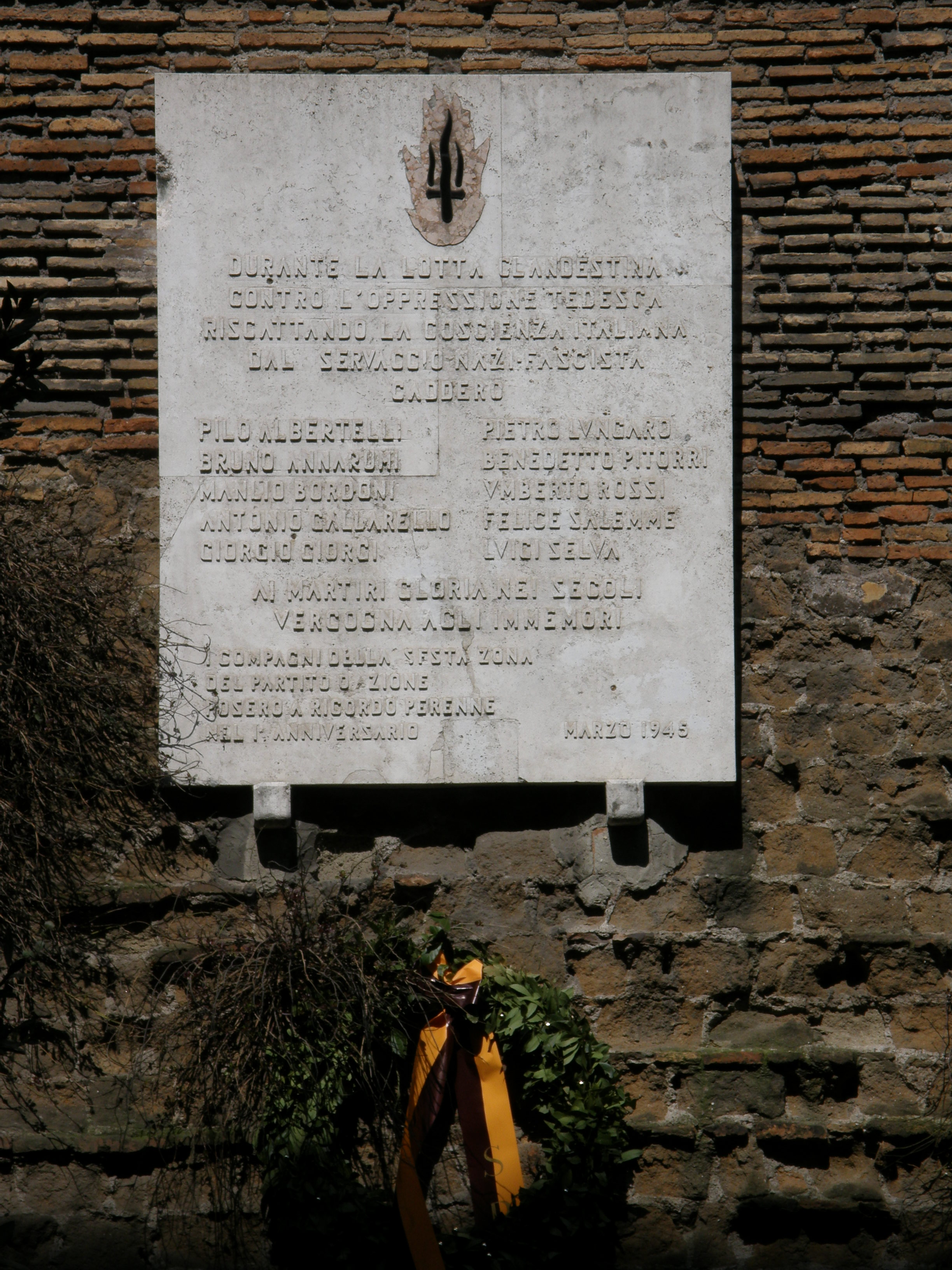 Rome, Italy - Viale Castrense - Memorial to the Fallen who Partito d’Azione brigades during the Resistance in World War II